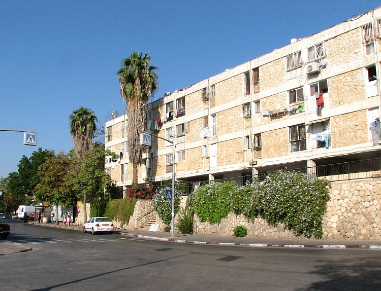 Katamon Tet, corner of San Martin and Bar Yochai, Jerusalem.